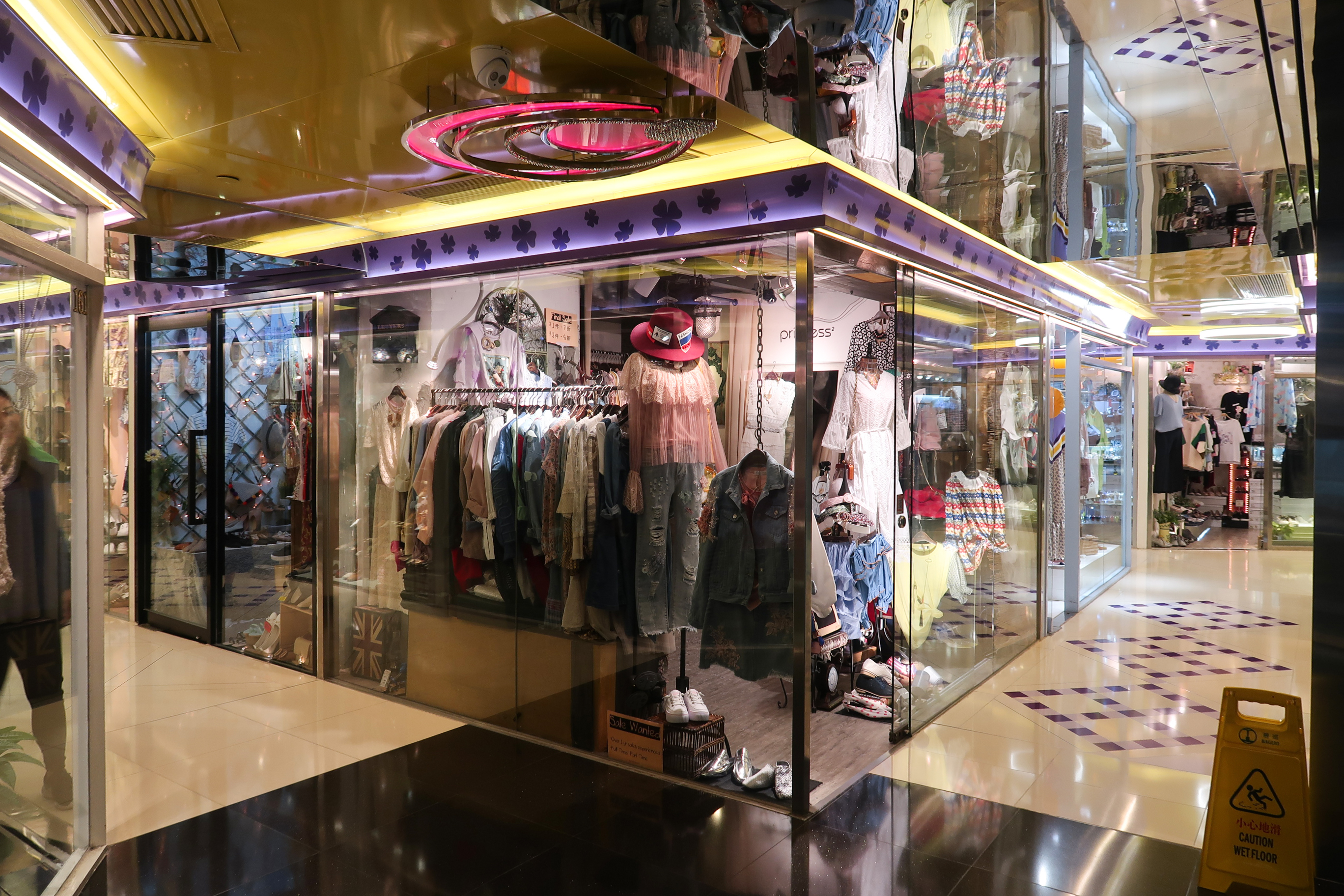 Island Beverley Level 1